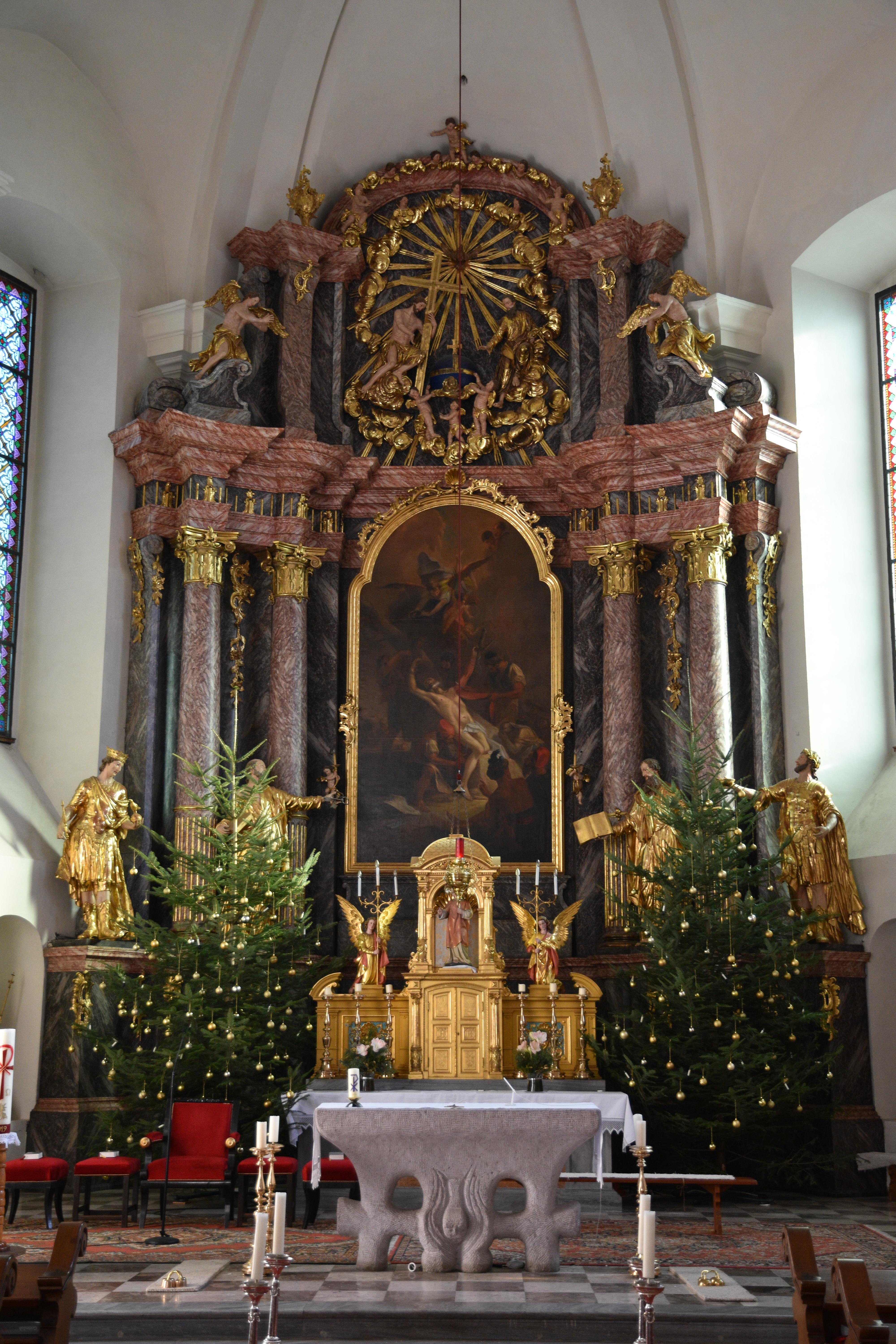 Church Pfarrkirche Bad Gams Interior